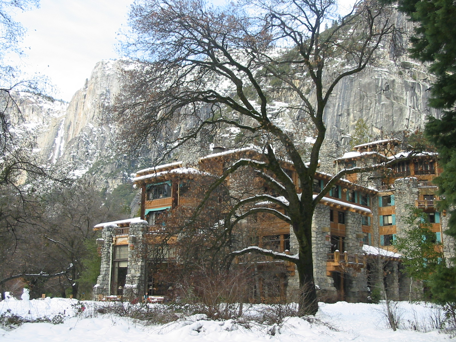 Picture of the Ahwahnee Hotel. I took this picture myself. Chris 02:39 15 February 2006 (UTC)